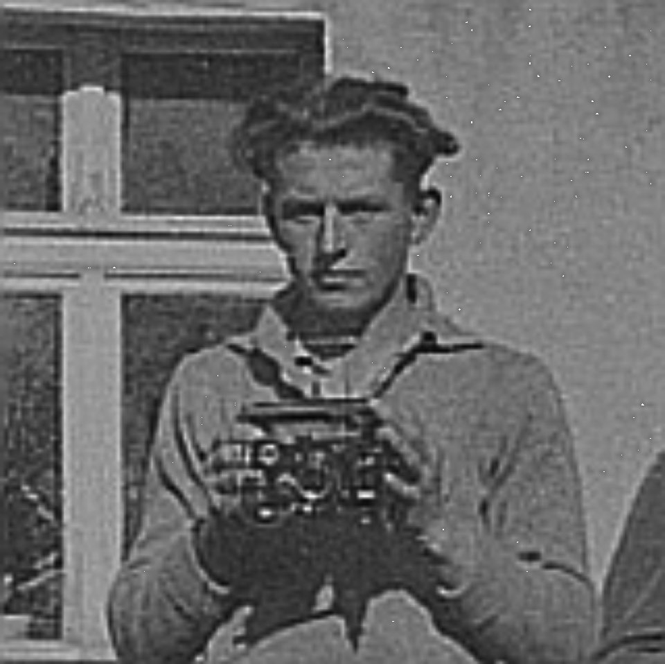 Photographer Kurt Beck (1909–1983) in the 1920s holding his camera.